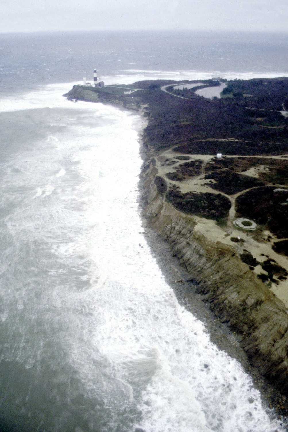 Montauk Point on the easternmost extremity of Long Island, New York, USA. View is from the northern side of the point looking southeast. Block Island Sound is to the left and the Atlantic Ocean is straight ahead in this photograph.